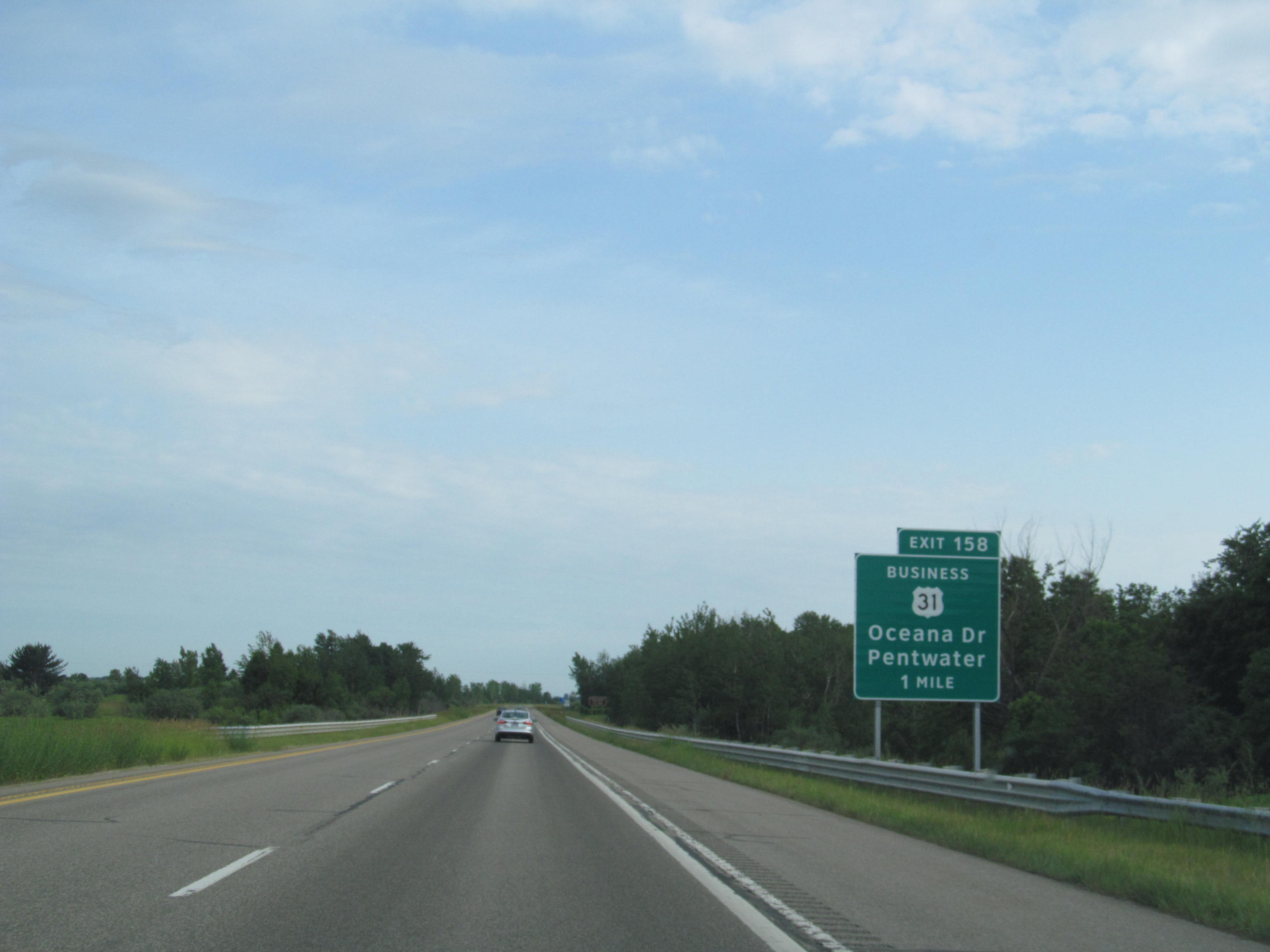 US Highway 31 at the BUS US 31 (Oceana Drive) exit near Pentwater